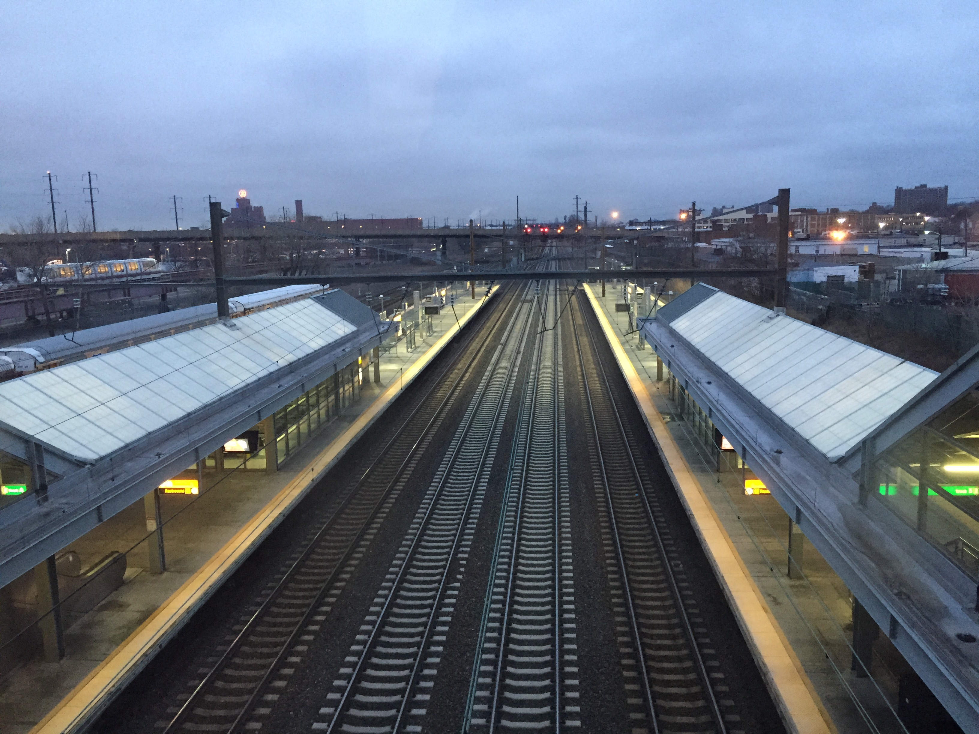 View southwest along the Northeast Corridor rail line from the pedestrian overpass at the Newark Liberty International Airport Train Station, New Jersey